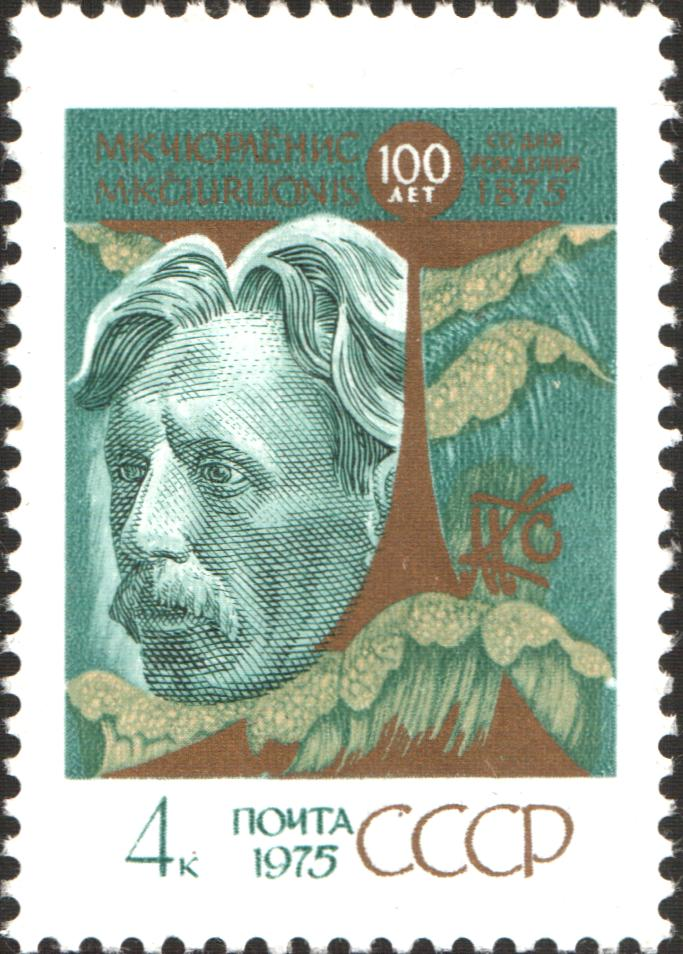 USSR stamp, M. K. Chiurlionis, 1975, 4 k.